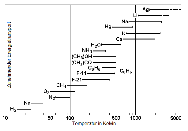 Evaporating temperatures of different fillings for heat pipes